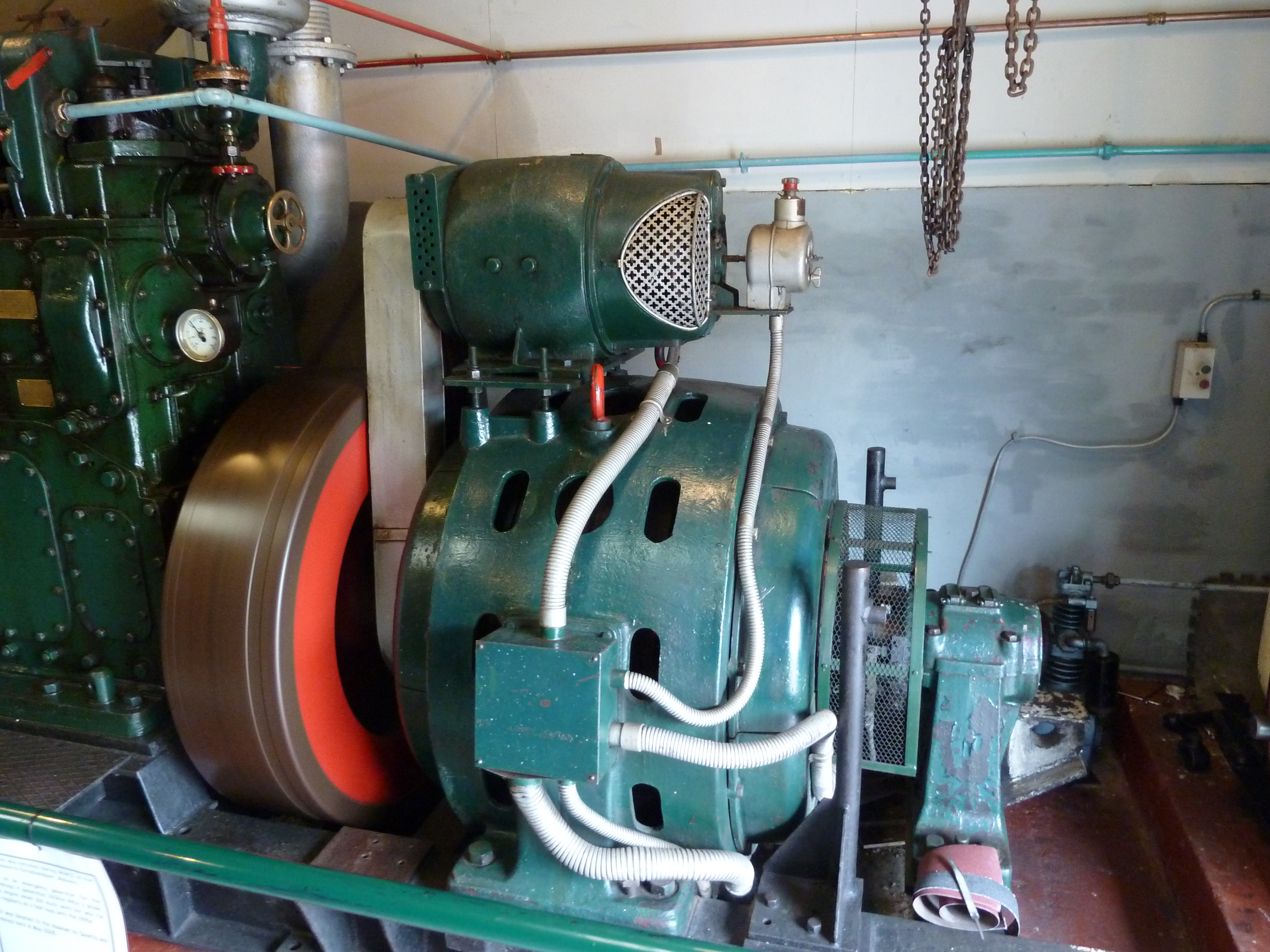 Mather & Platt 260kVA 440V three-phase alternator, with separate exciter (above). Part of the ex-RSRE Malvern Allen 8S30 diesel generating set. Now on display at the Internal Fire museum.